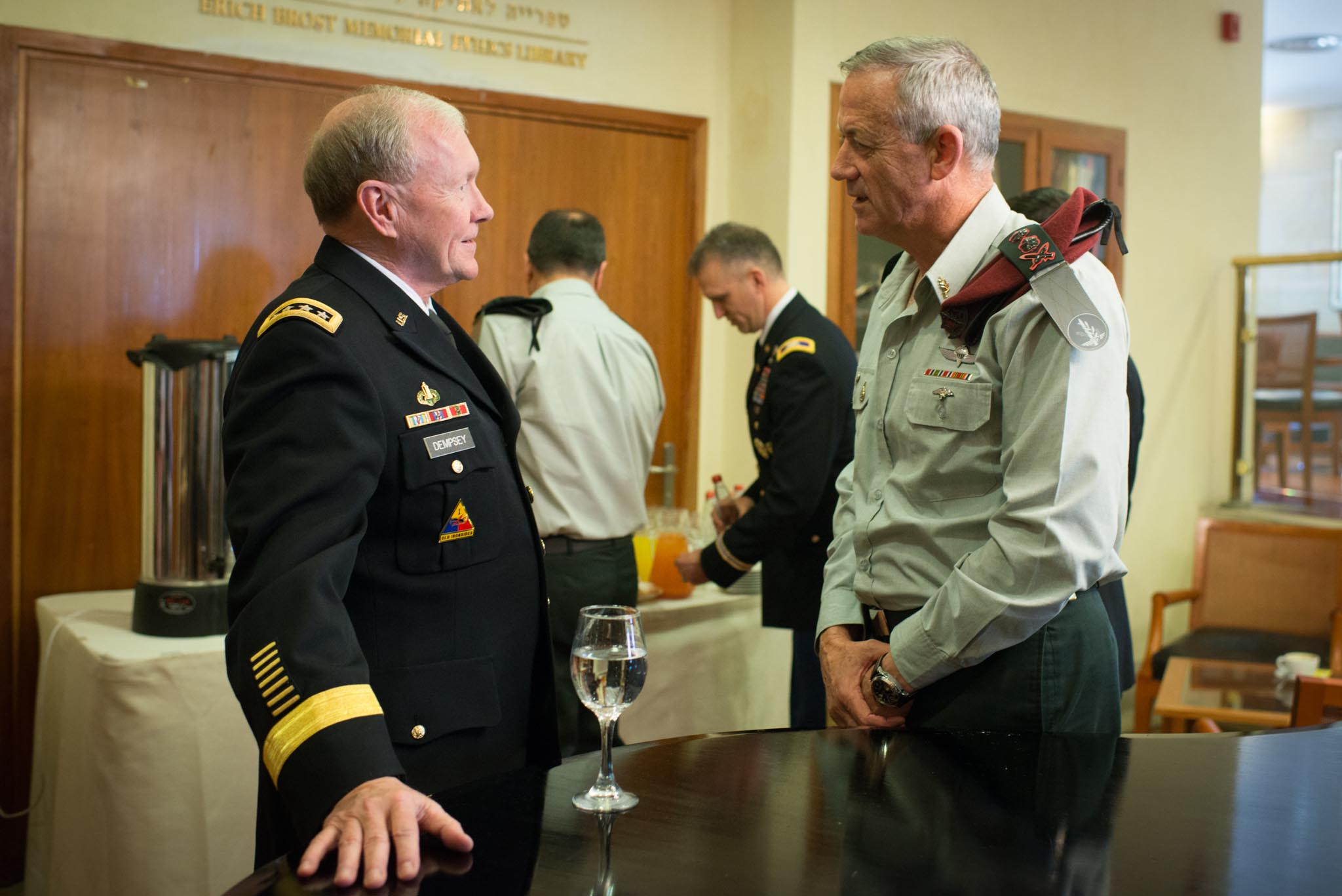 Gen Martin E. Dempsey, US chairman of the Joint Chiefs of Staff, and Lt Gen Binyamin "Benny" Gantz, Chief of Gen. Staff of the Israel Defense Forces, in Jerusalem, Israel on Mar. 31, 2014. DOD photo by D. Myles Cullen